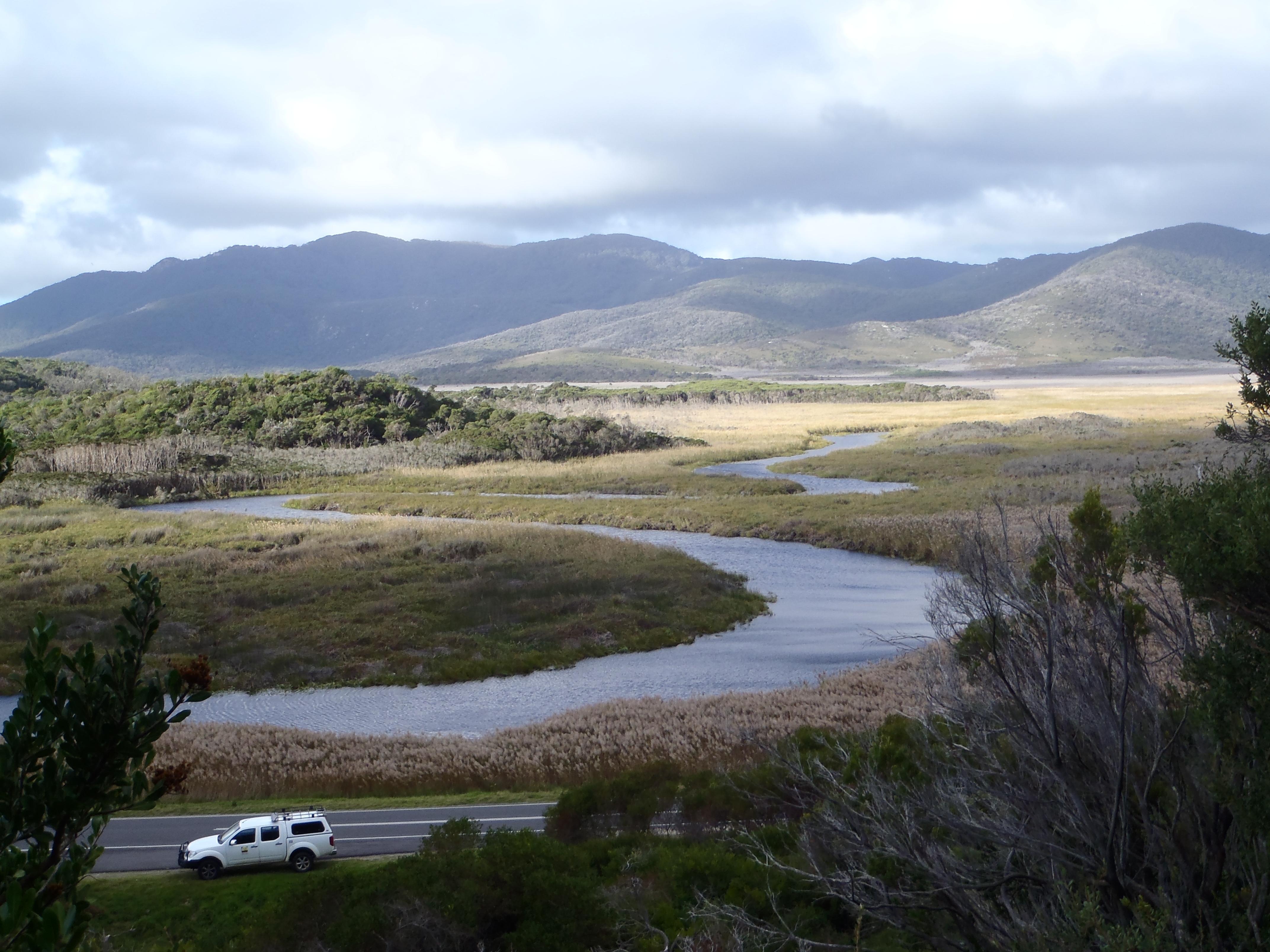 View looking north west along lower reaches of Darby River, showing meanders